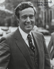 Former U.S. Congressman S. William Green.